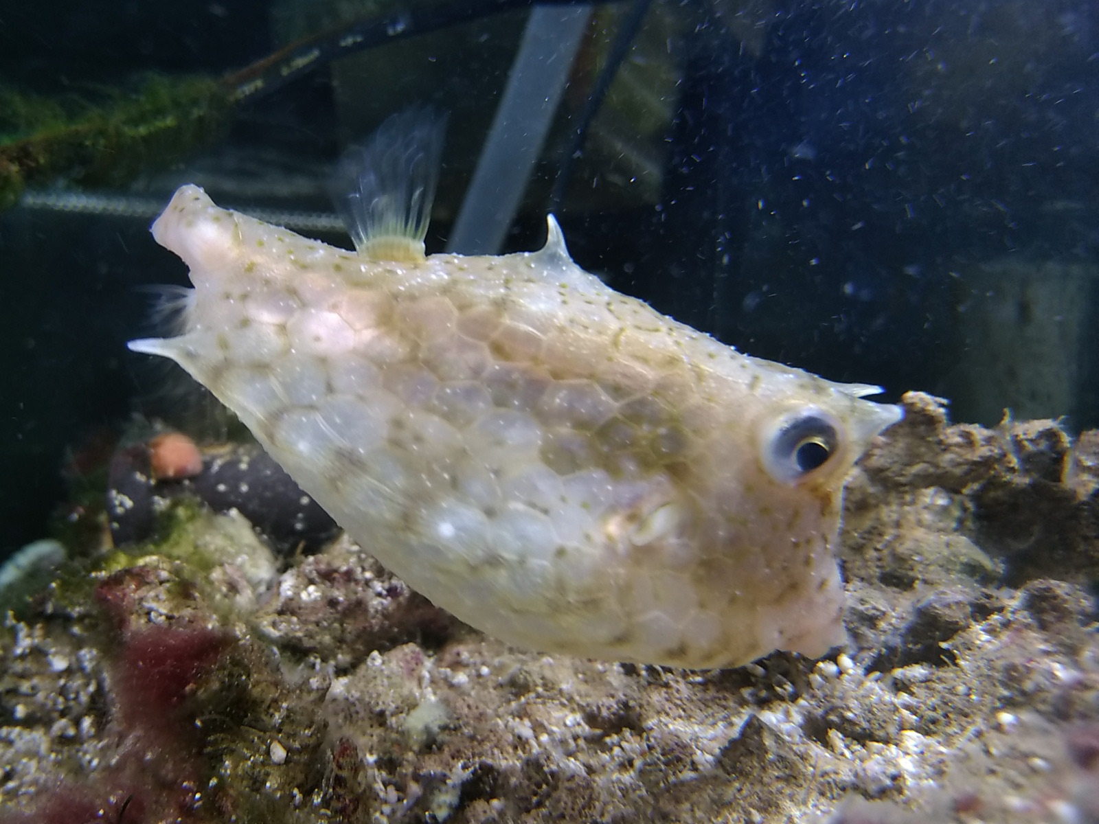 Lactoria diaphana